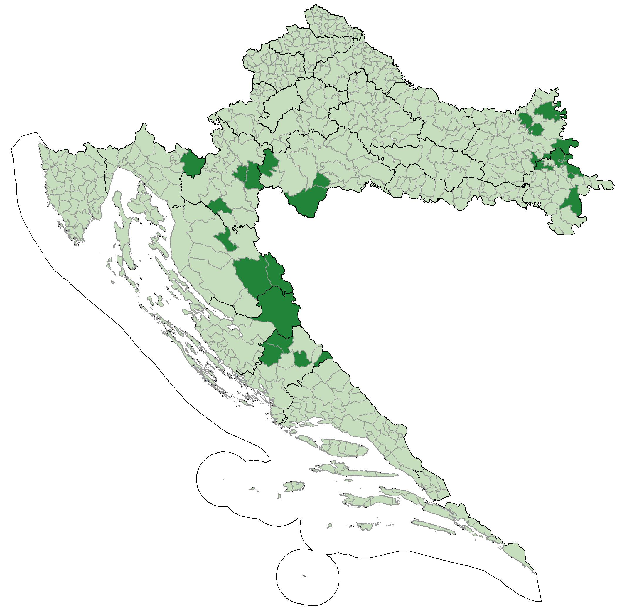 Serbian language as co-official minority language in municipalities in Croatia. Municipalities: Dvor[1] Gvozd[1] Jagodnjak[1] Šodolovci[1] Borovo[1] Trpinja[1] Markušica[1] Negoslavci[1] Biskupija[2] Ervenik[2] Kistanje[2] Gračac[2] Udbina[2] Vrbovsko[2] Donji Kukuruzari[2] Erdut[2] Vukovar[2] Kneževi Vinogradi [3] Darda[3] Nijemci[3] References: ↑ a b c d e f g h Treće izvješće Republike Hrvatske o primjeni Europske povelje o regionalnim ili manjinskim jezicima. Government of Croatia (August, 2006). Retrieved on 2013-10-27. ↑ a b c d e f g h i Government of Croatia. NAPUTAK ZA DOSLJEDNU PROVEDBU ZAKONA O UPORABI JEZIKA I PISMA NACIONALNIH MANJINA U REPUBLICI HRVATSKOJ. Narodne novine. Retrieved on 2013-10-27. ↑ a b c Registar Geografskih Imena Nacionalnih Manjina Republike Hrvatske (PDF). Retrieved on 2013-10-27.